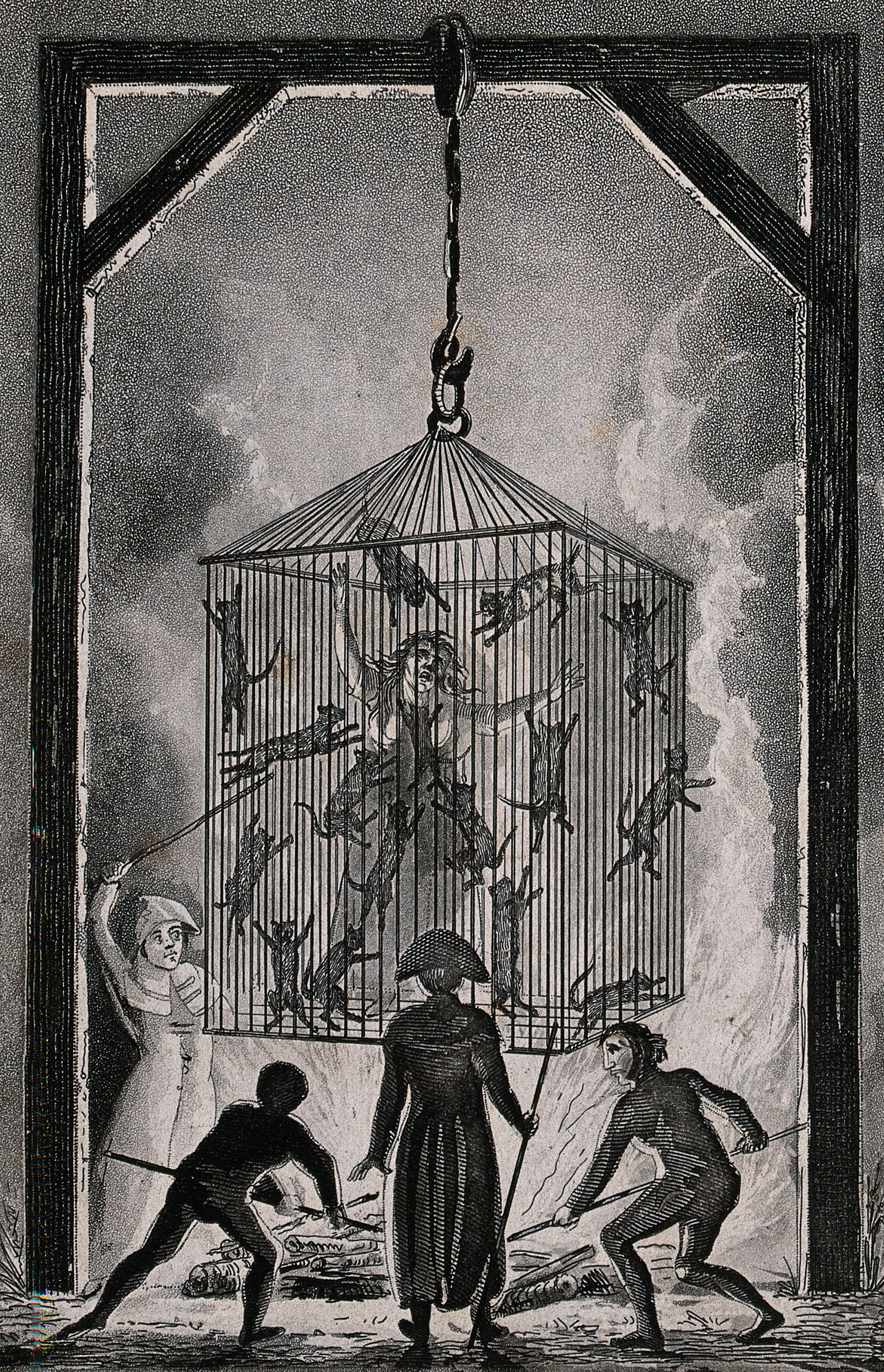 The burning of Louisa Mabree, the French midwife in a cage filled with black cats suspended over a blazing fire. Aquatint. Iconographic Collections